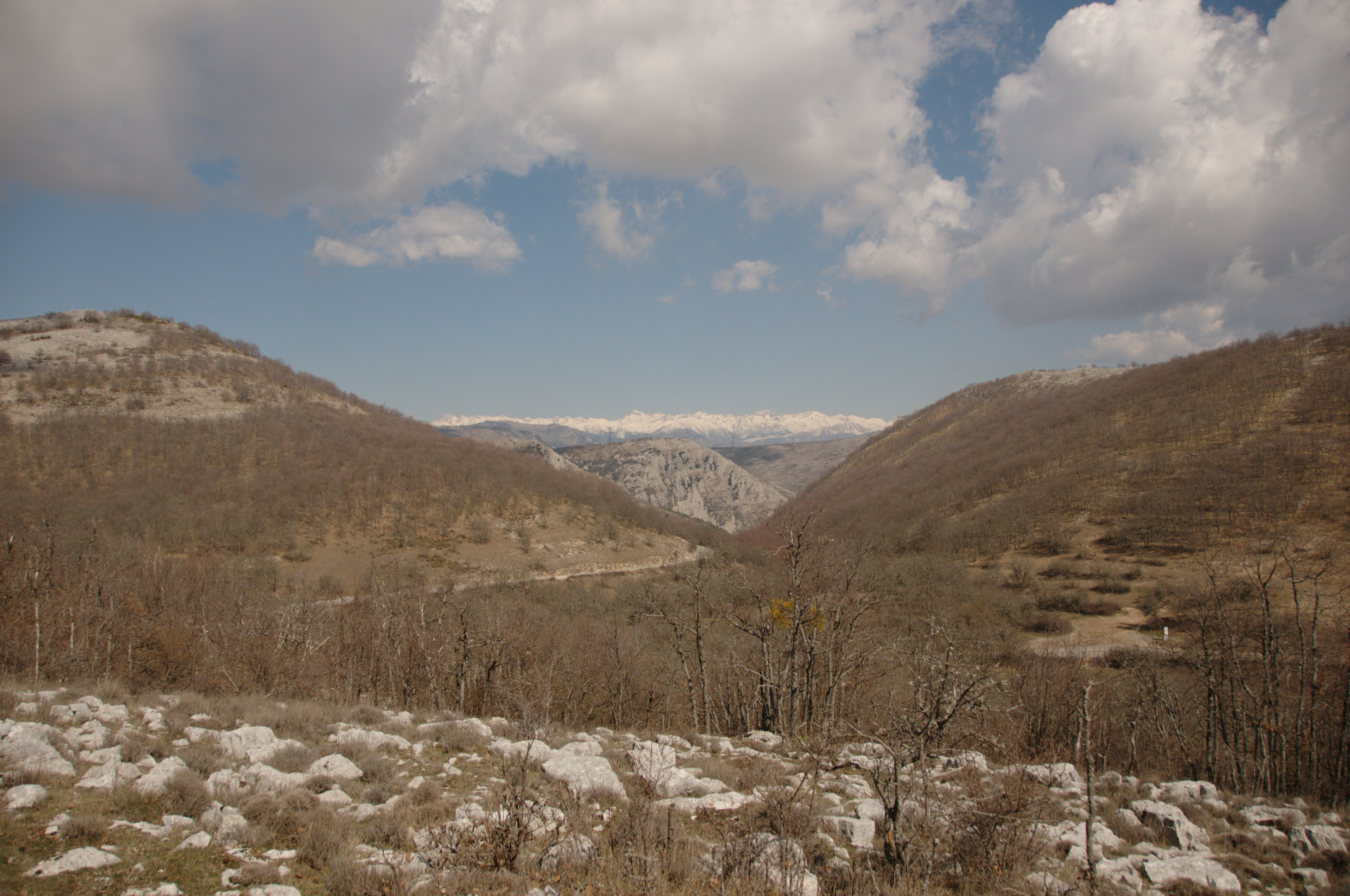 Col de Vence Road heading to Coursegoules